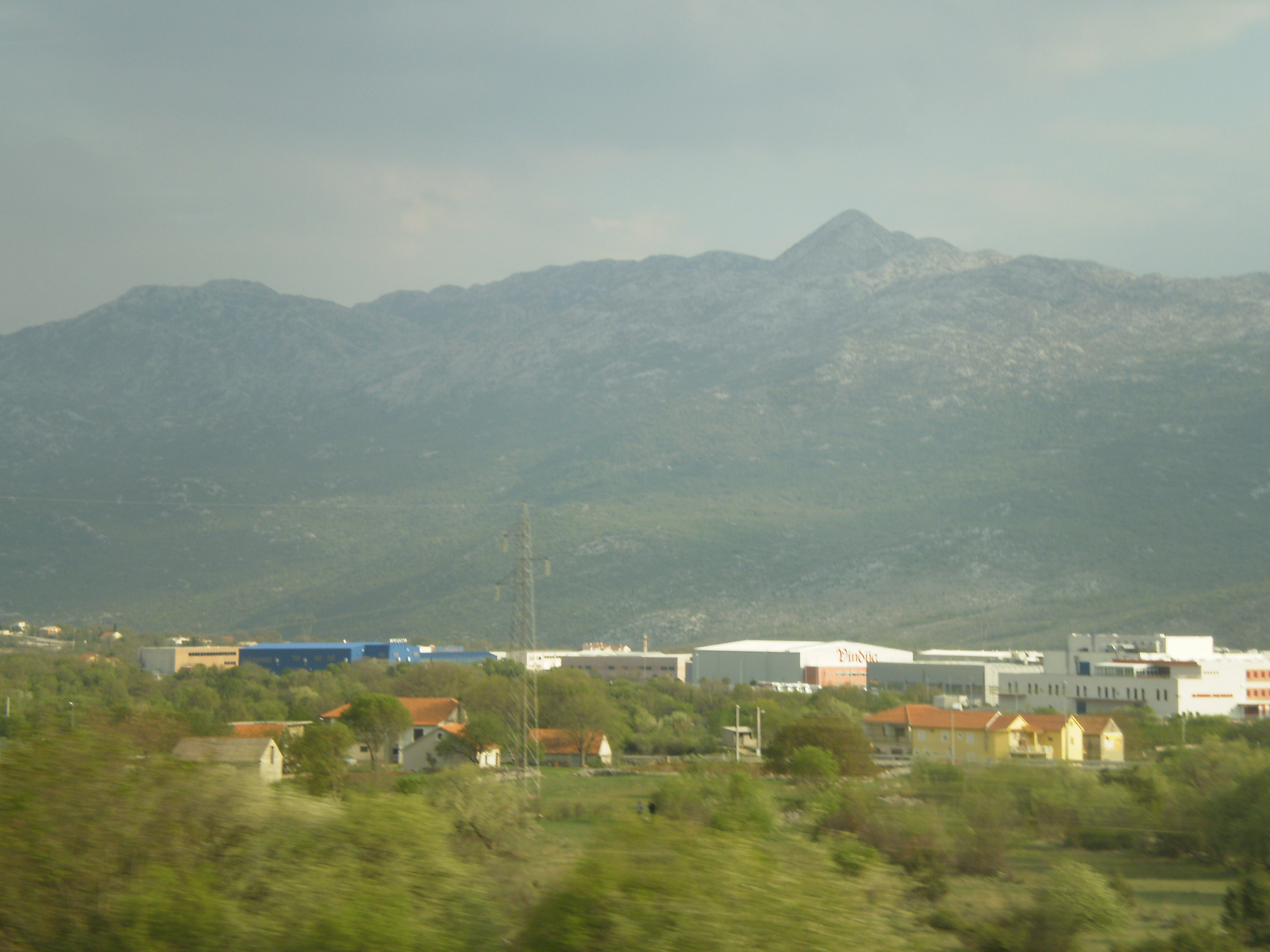 Dugopolje OLYMPUS DIGITAL CAMERA